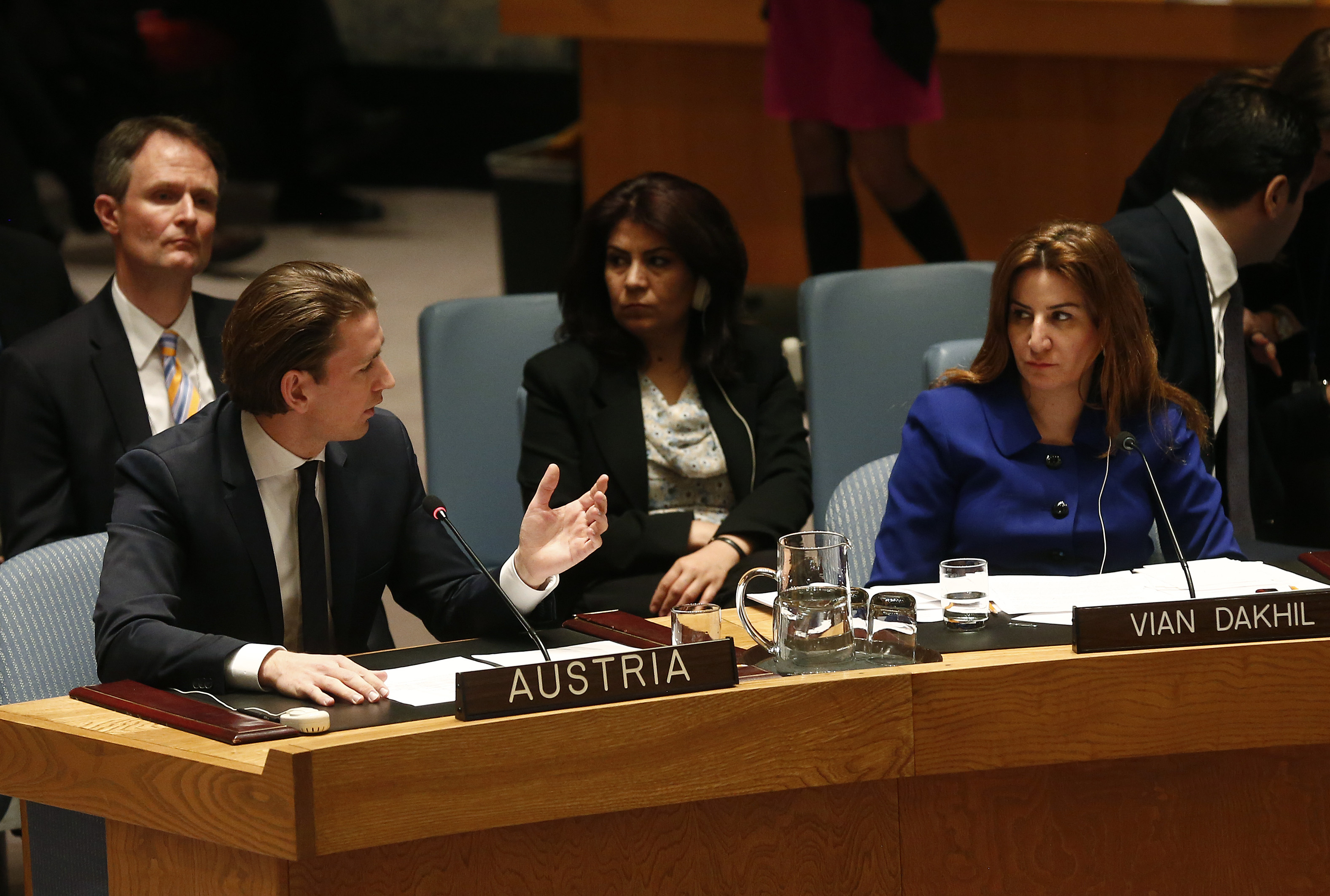 Austrian foreign minister Sebastian Kurz and Iraqi MP Vian Dakhil at a session of the UN Security Council concerning the protection of religious minorities in the Middle East.